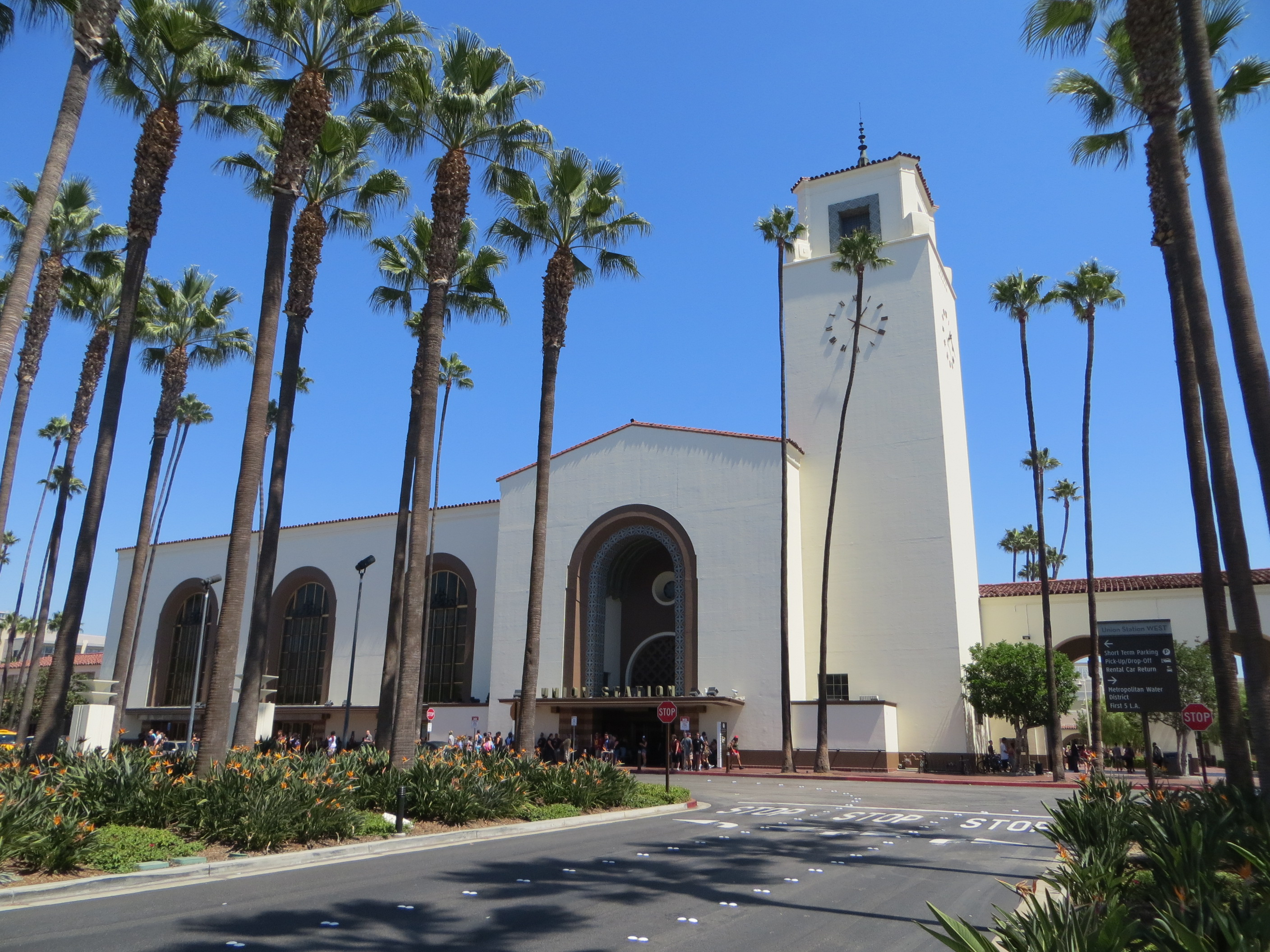 20140830 50 Los Angeles Union Station